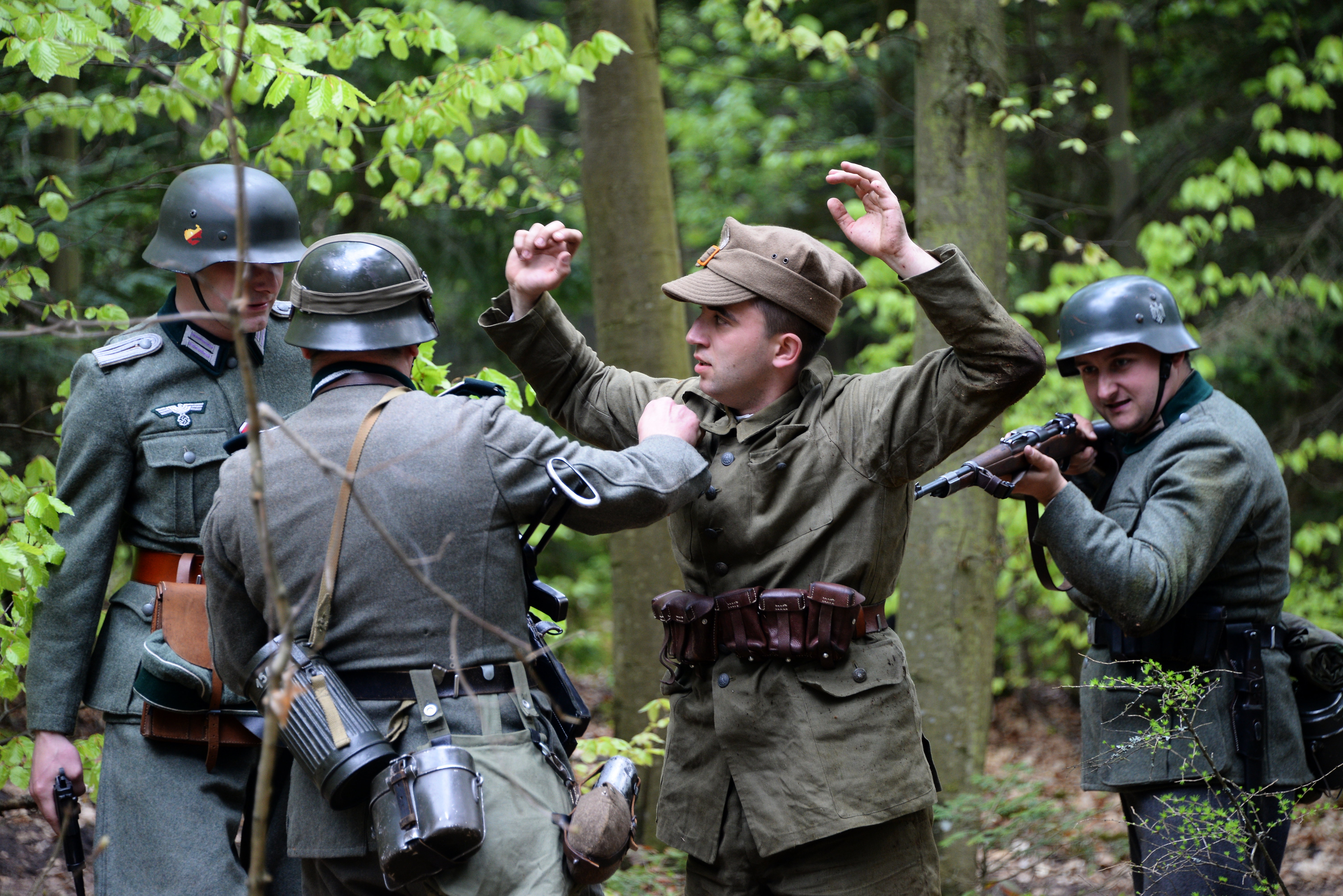 Capture of Polish Soldier at World War II Reenactment Cavalry Picnic in Bliżyn; Pojmanie Polskiego żołnierza na rekonstrukcji z okresu II wojny Światowej, Pikniku Kawaleryjskim w Bliżynie